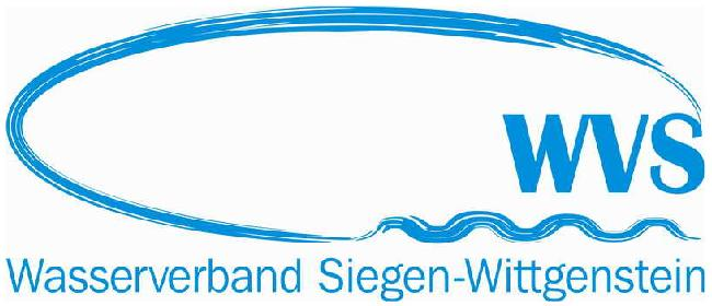 This is the Logo from the Wasserverband Siegen-Wittgenstein.